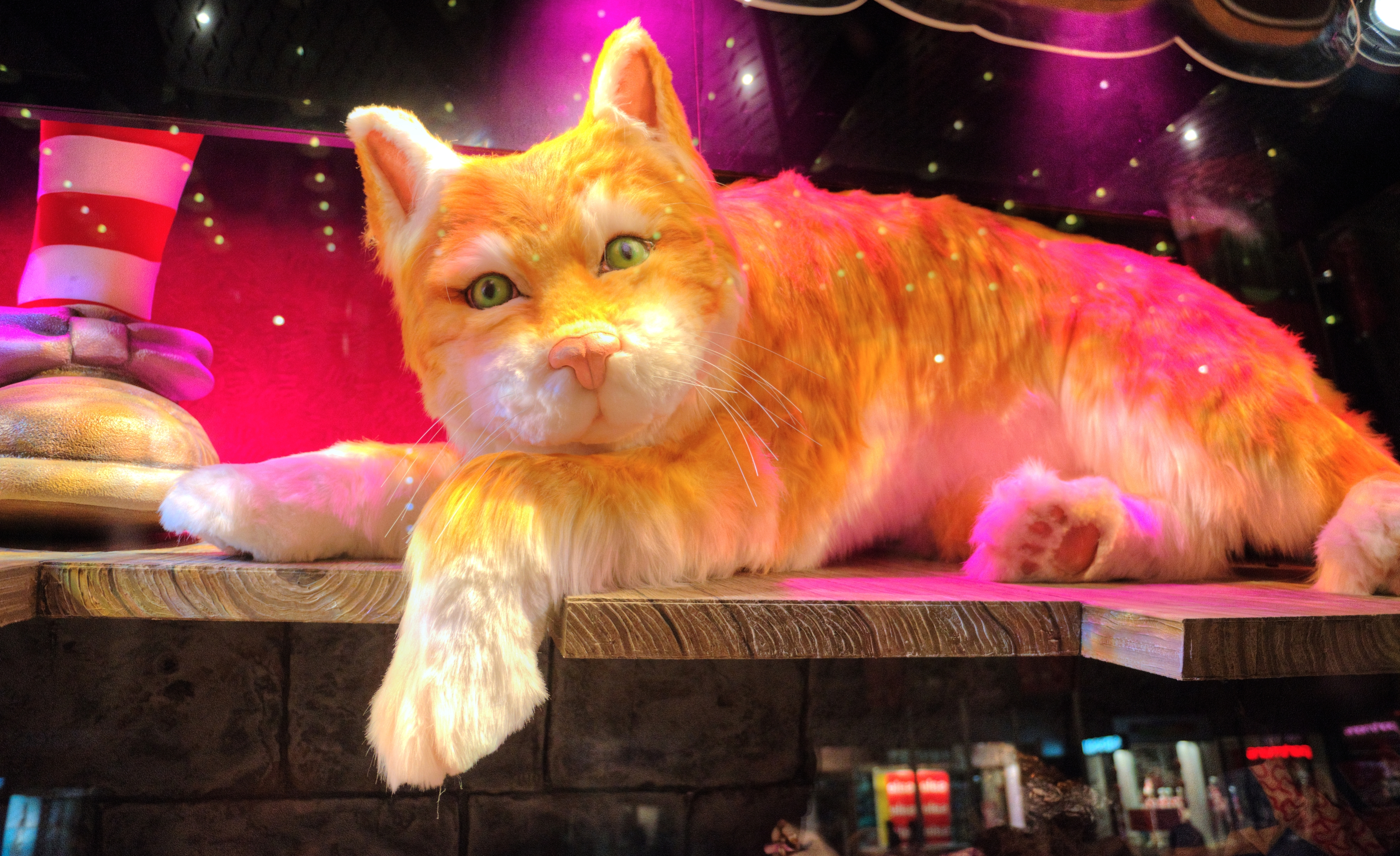 For the 58th year, the Myer store Christmas window display featured "Gingerbread Friends" based on the book by American children’s author, Jan Brett. Its hard to grasp the sense of the scale here, that is a one very large animatronic cat. Collectors Weekly has an interesting article about the origins of department stores Christmas window displays.